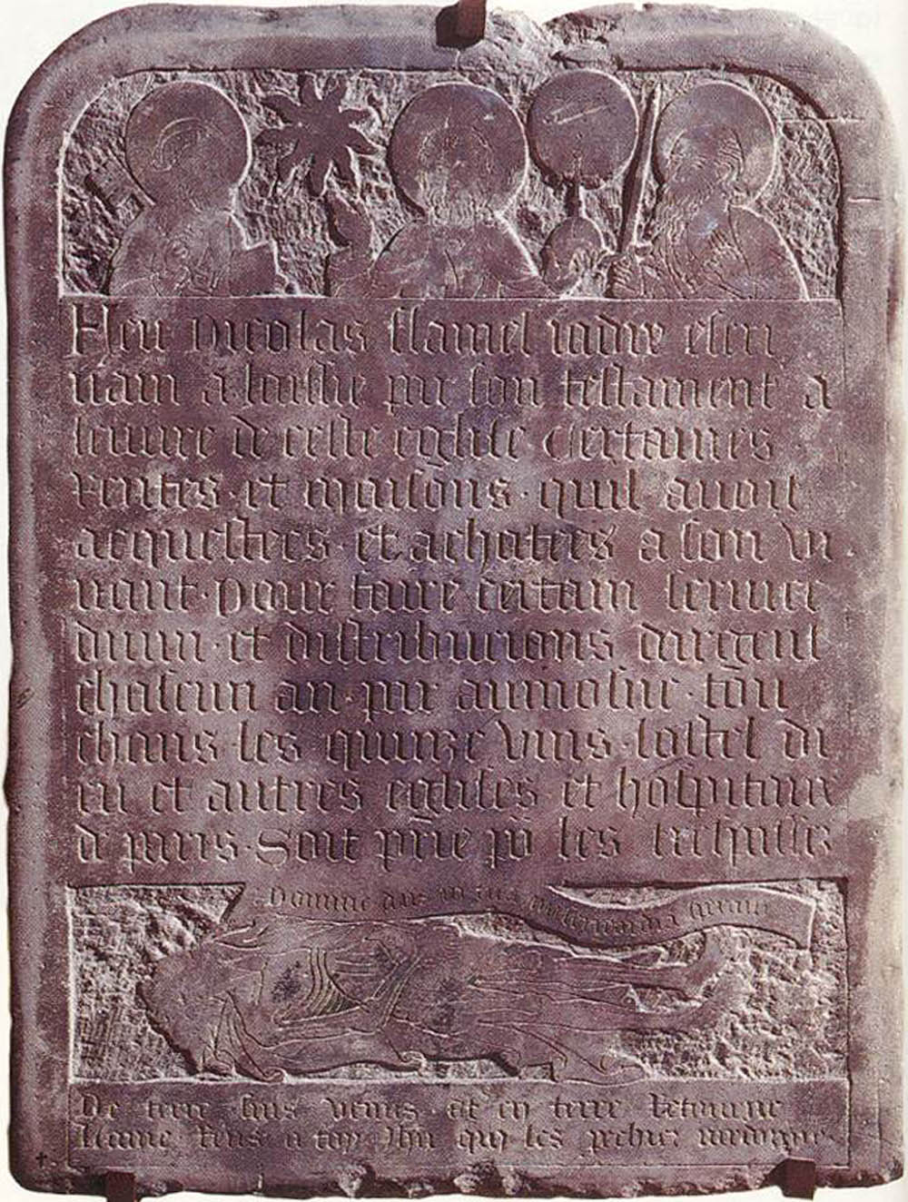 Tombstone of Nicolas Flamel, formerly located in the church of Saint-Jacques-de-la-Boucherie and now at the Cluny Museum in Paris.